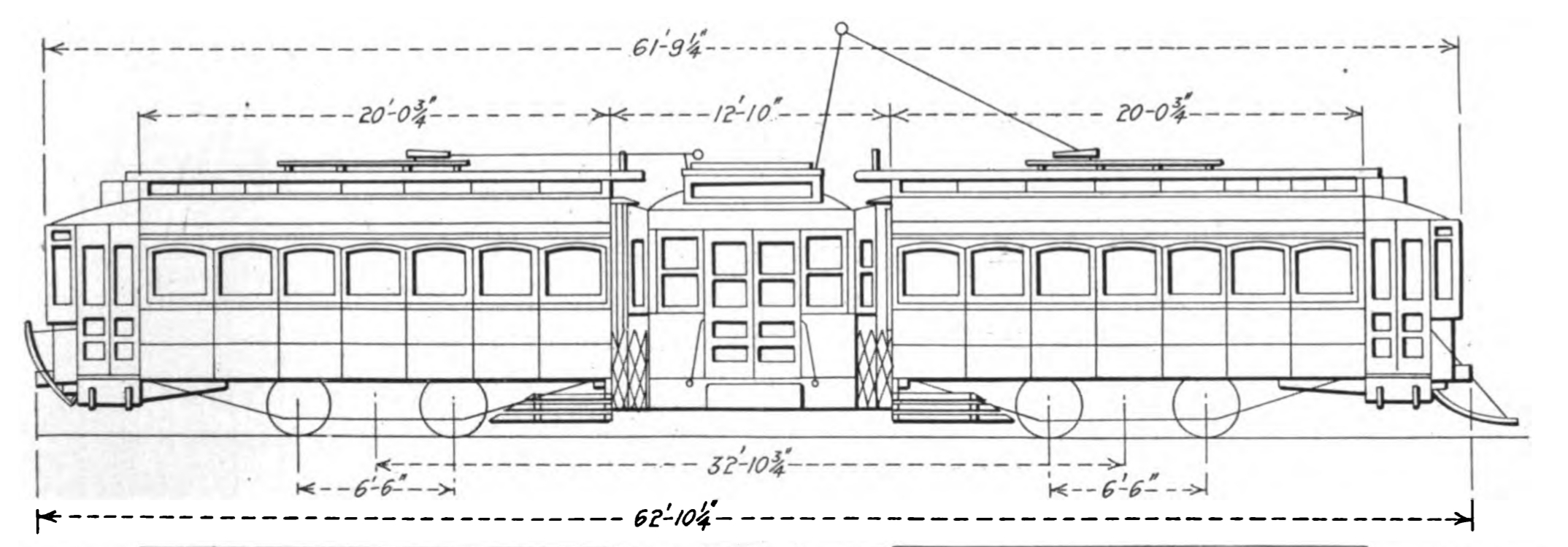 Diagram of a Boston Elevated Railway Articulated #1 car, made from two 1890s-built 20-foot trams, in 1912